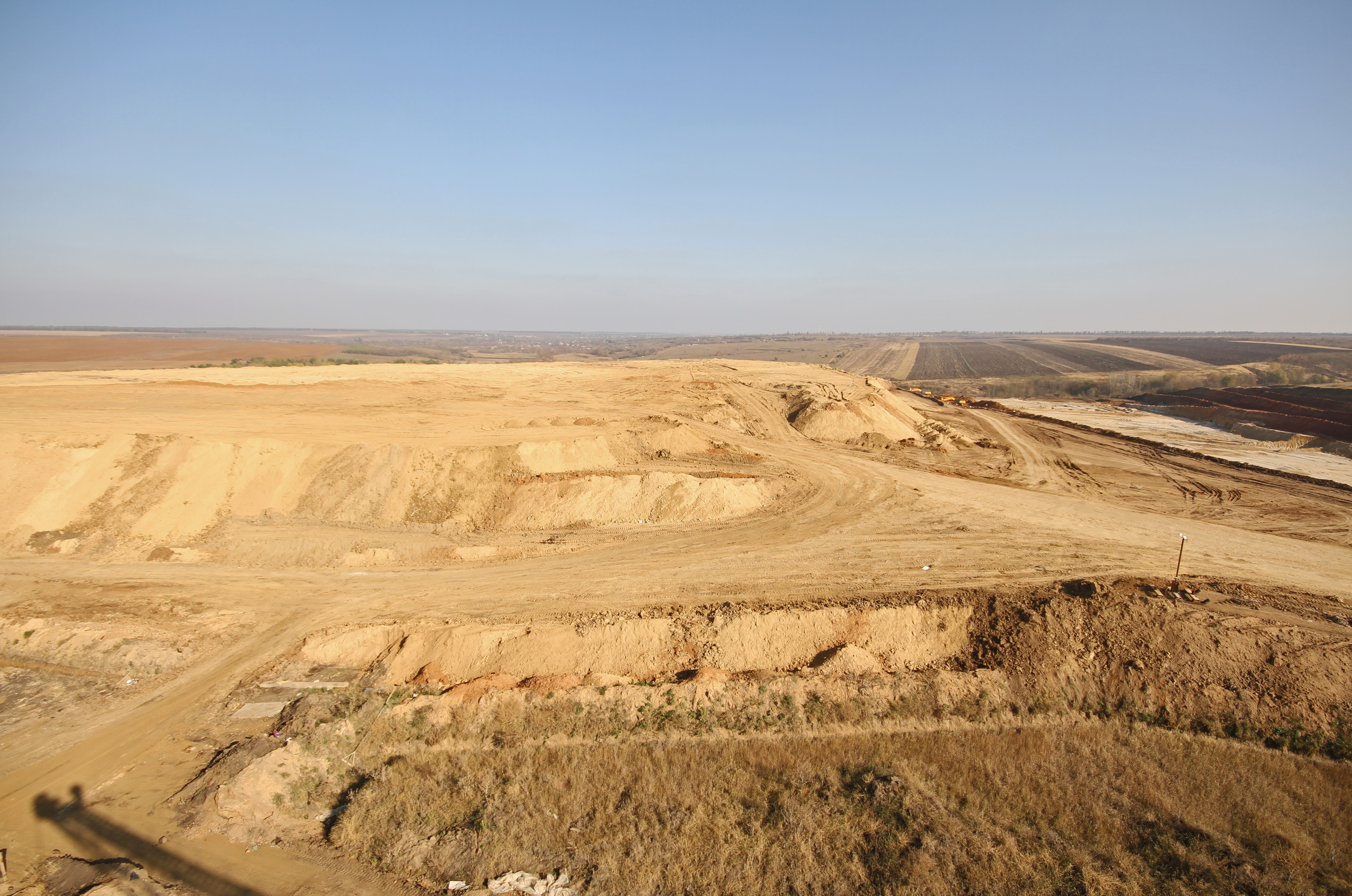 Birzuliv mine, October 2011